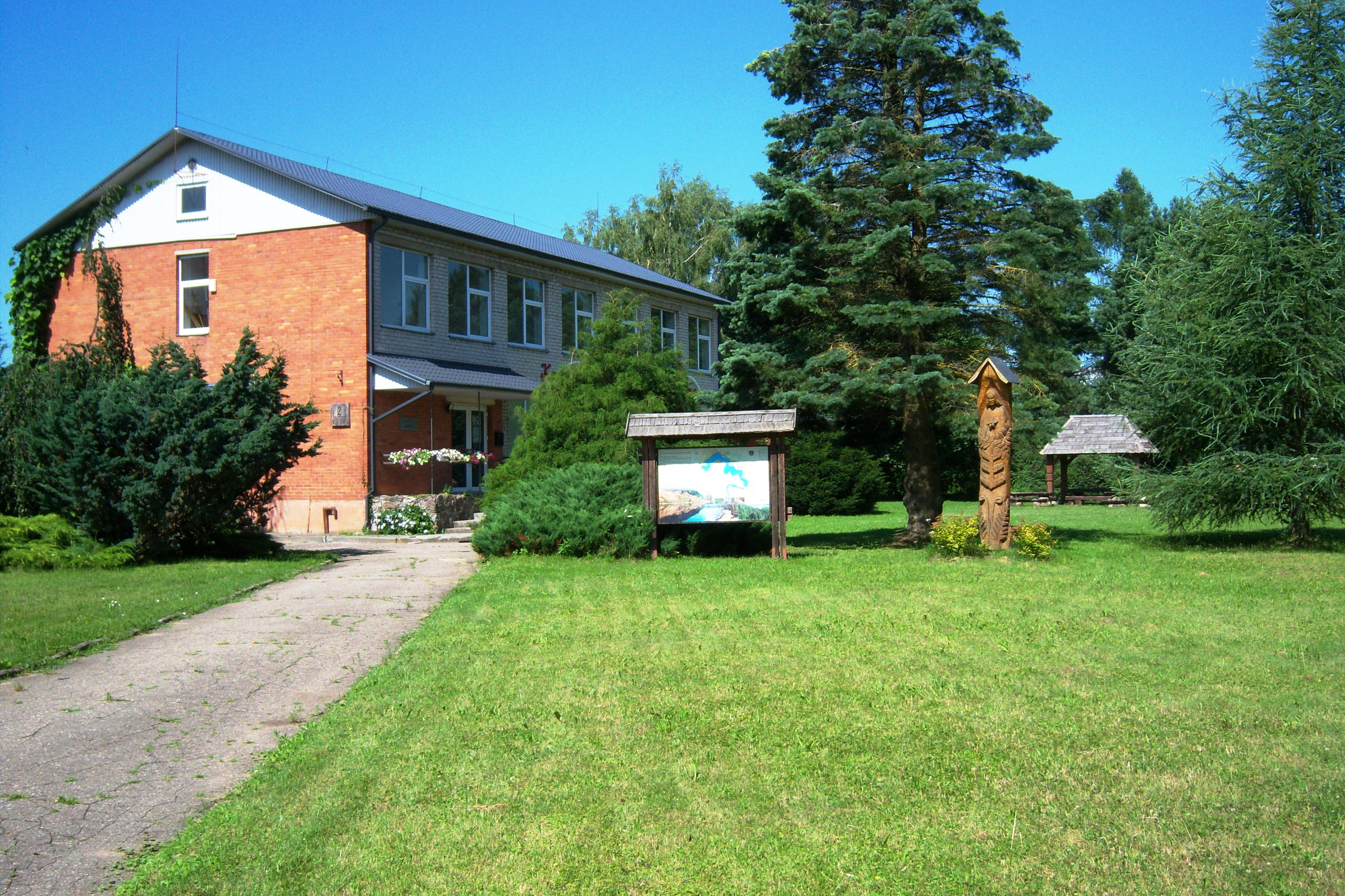 Kaunas Reservoir Regional Park administration in Vaišvydava, Kaunas district, Lithuania